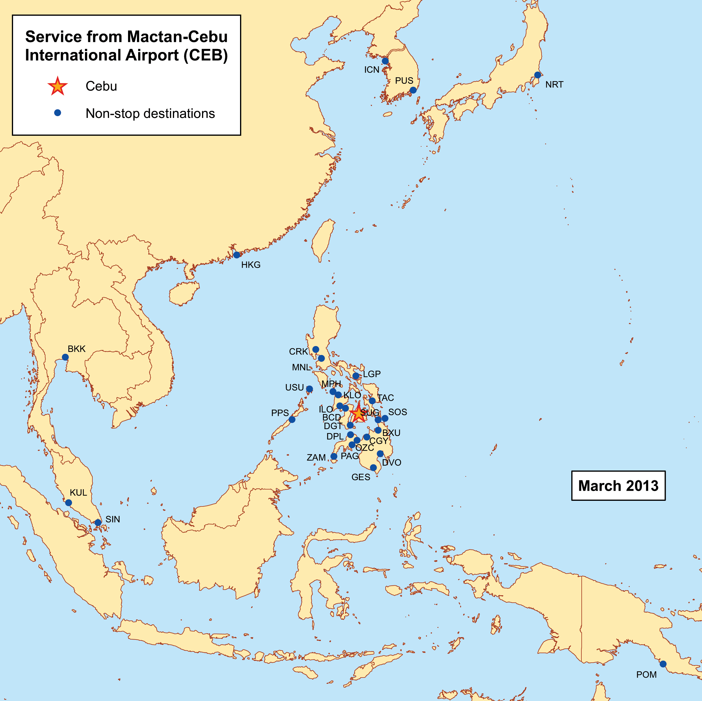 This is a route map for Mactan-Cebu International Airport as of January 2008. Map is an Azimuthal equidistant projection centered on the airport so straight lines from Cebu are along great circle routes.